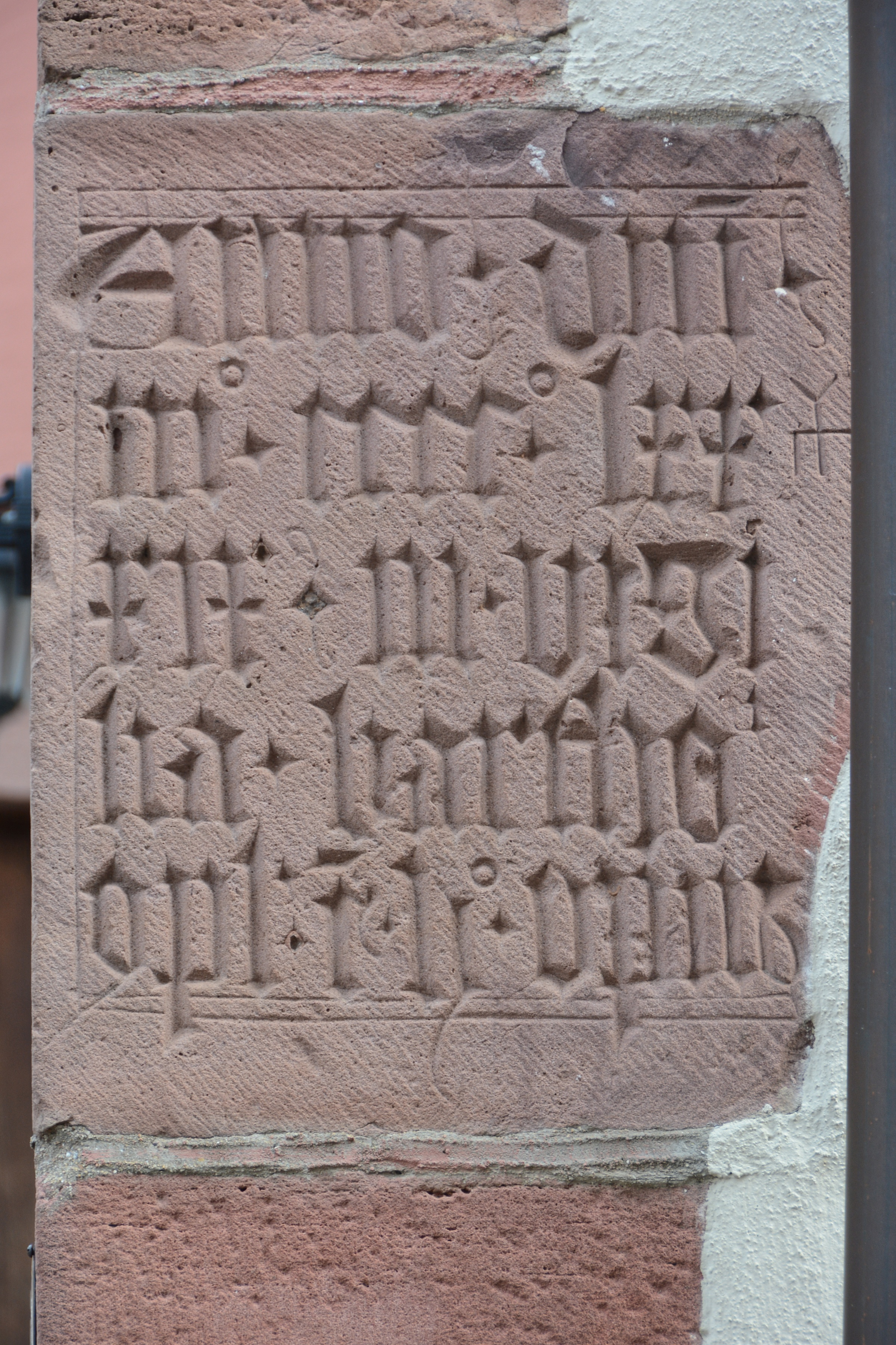 Beguinage, Buchen (Odenwald), Germany